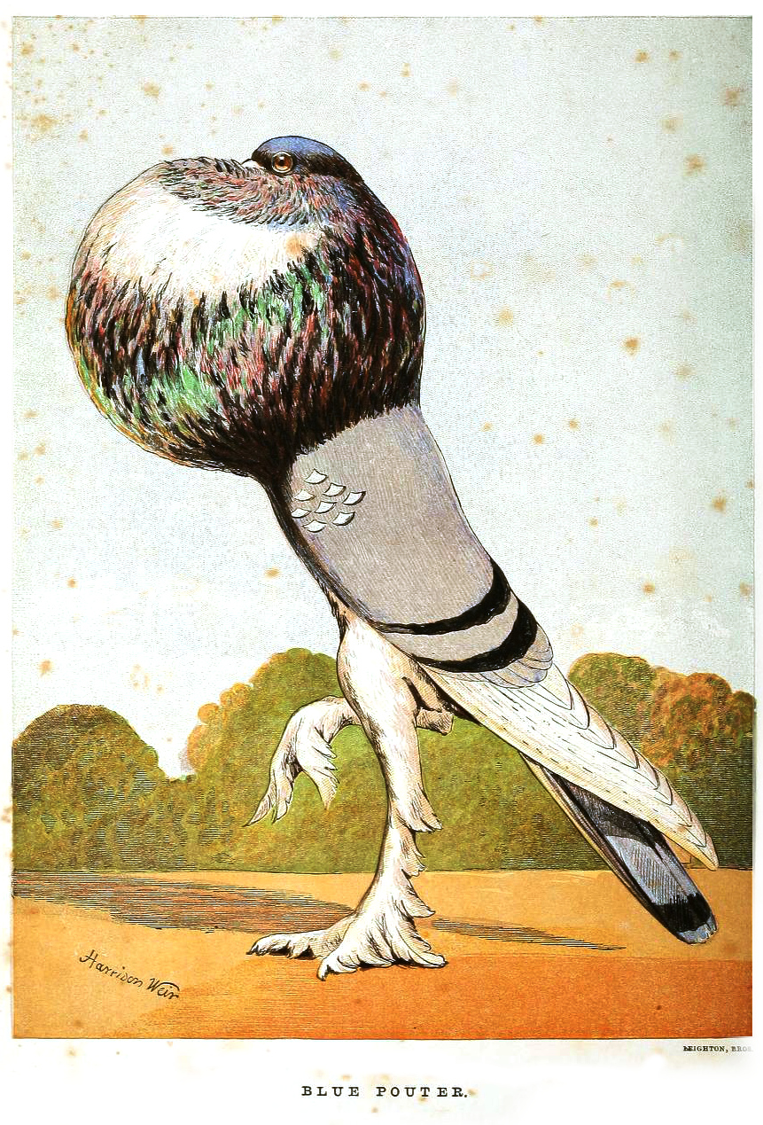 Blue pouter (pigeon breed)